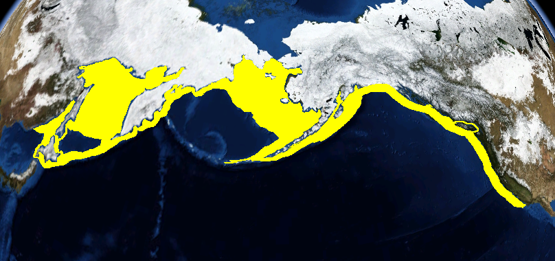 Range of the Pacific Halibut, Hippoglossus stenolepis.